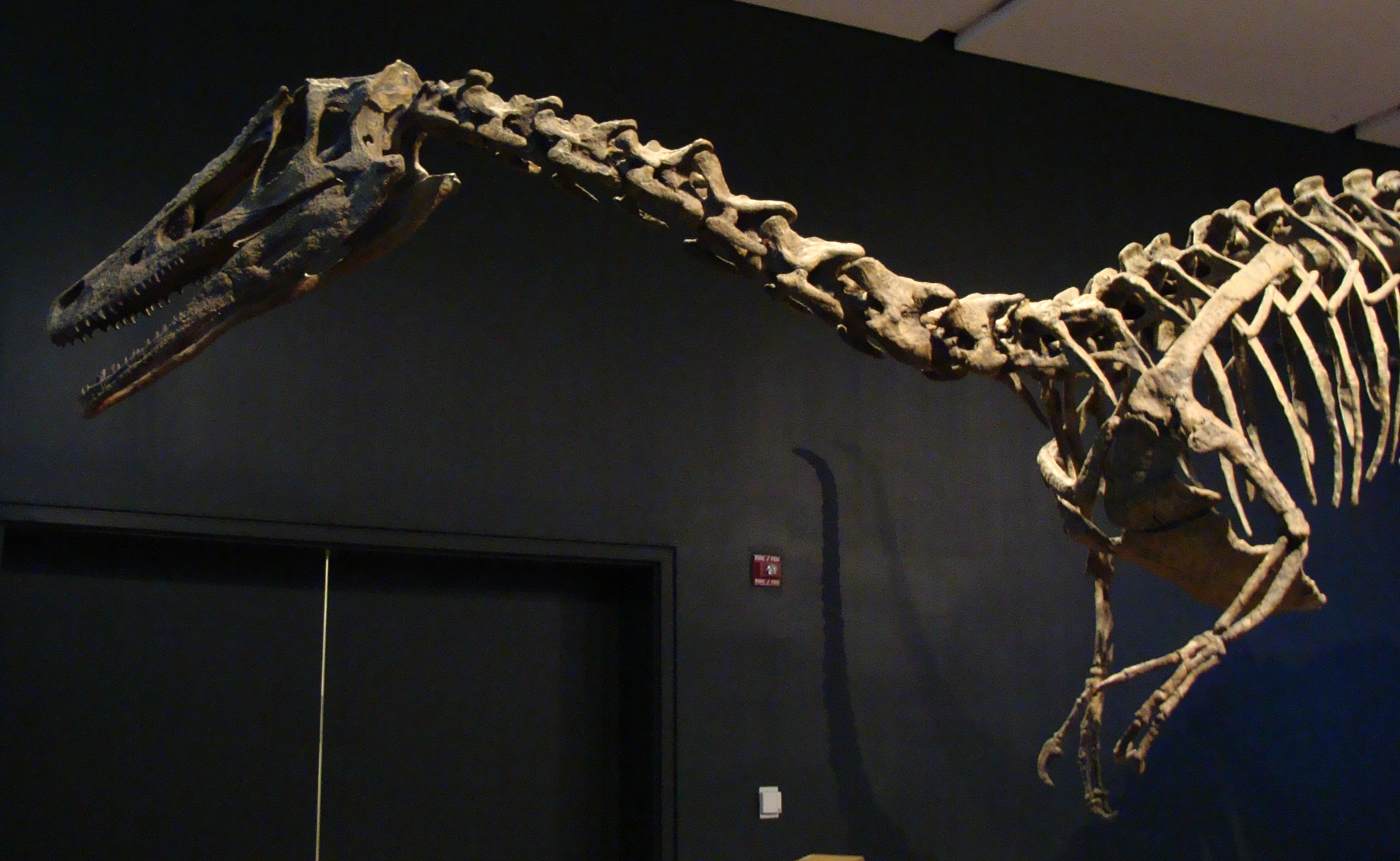 Austroraptor on display at the Royal Ontario Museum.